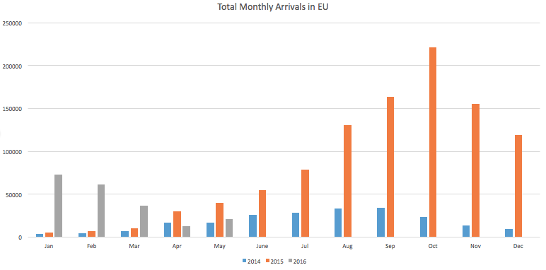 Total EU migrant/refugee arrivals 2014-2016 (June)